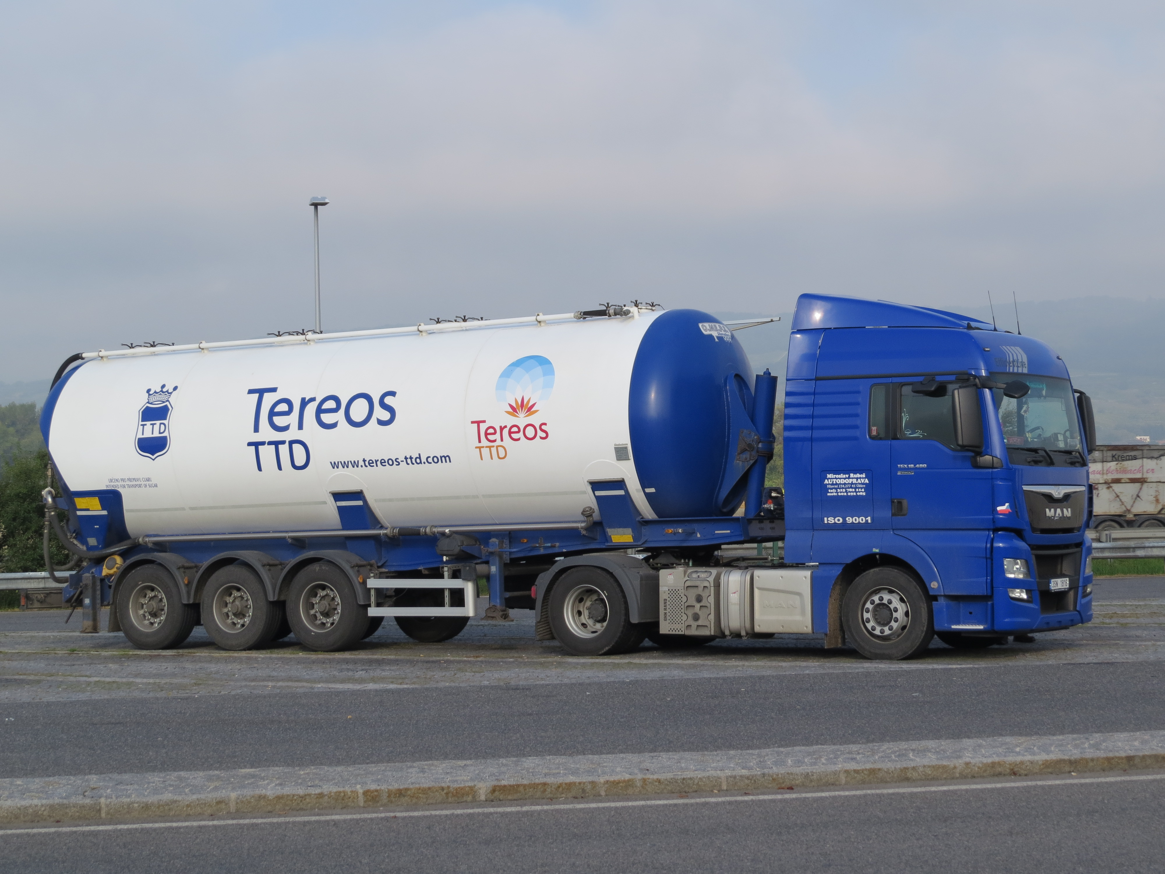 MAN TGX 18.480 at ASFINAG Rastplatz Herzogenburg